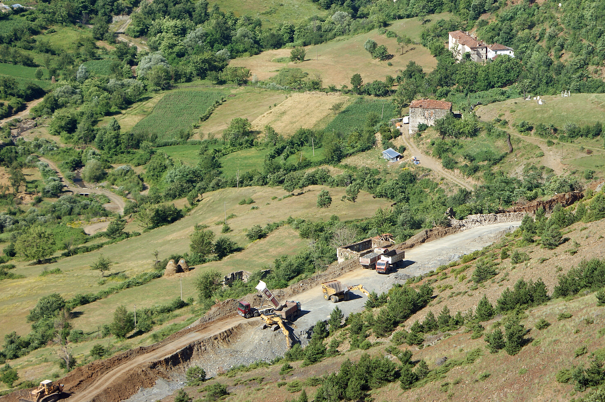 Construction work at Rruga e Arbërit in Summer 2011 between Plan i Bardhë and Klos-Katund